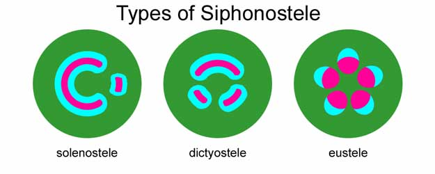 Stelar arrangements among plants with siphonosteles. Diagram created by B. R. Speer on 20 Nov 2005 using Photoshop Elements.